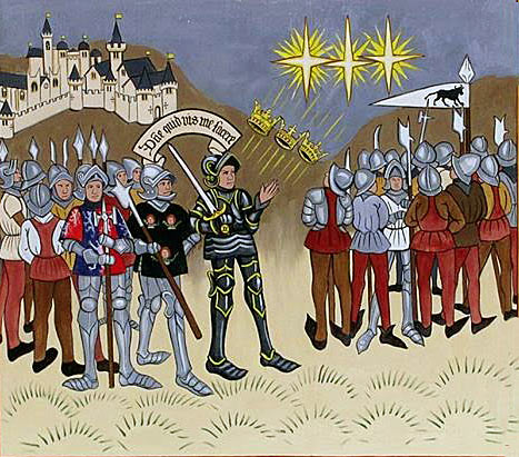 From the British Library. Detail of item described at